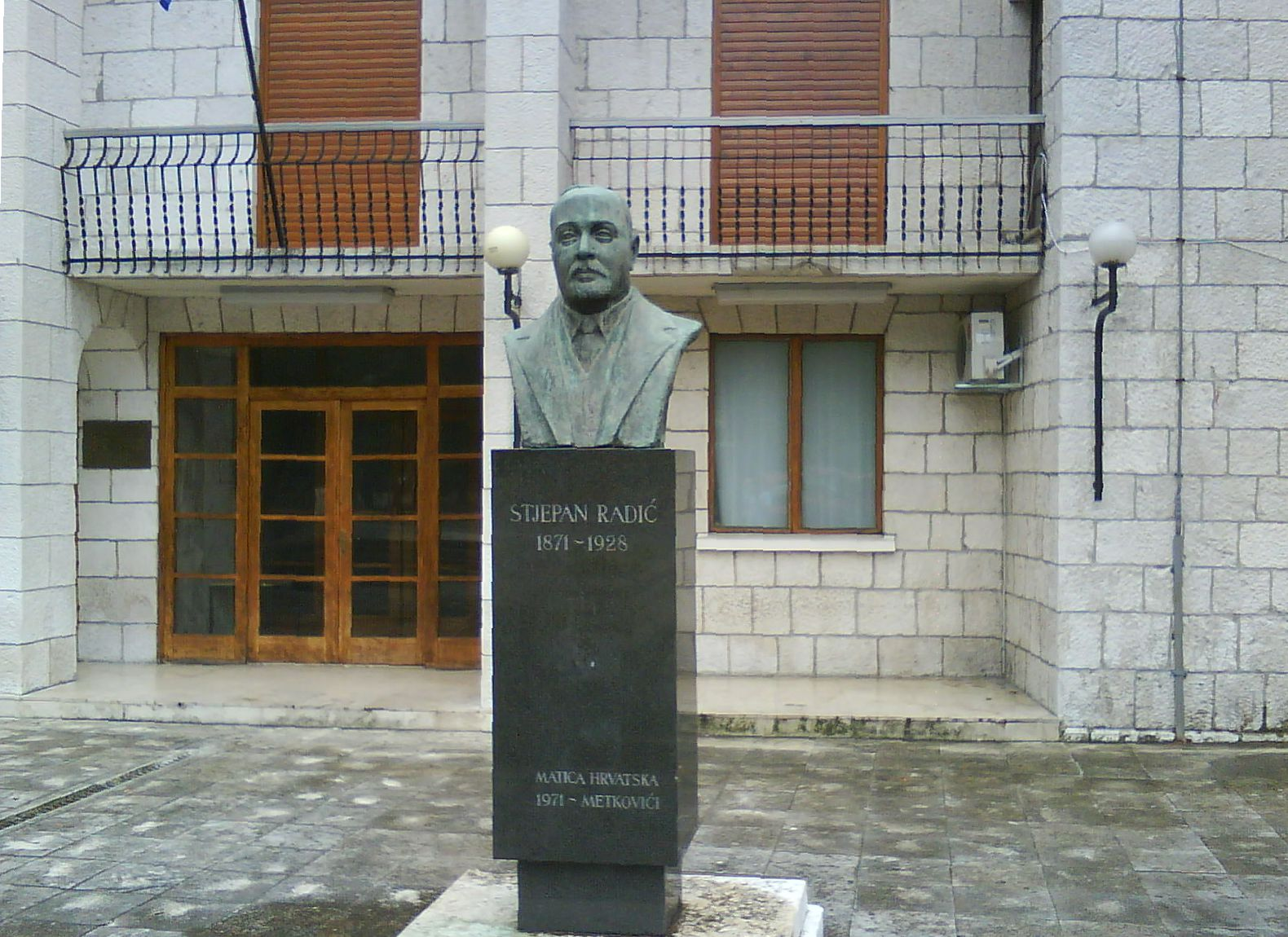 Bust of Stjepan Radić